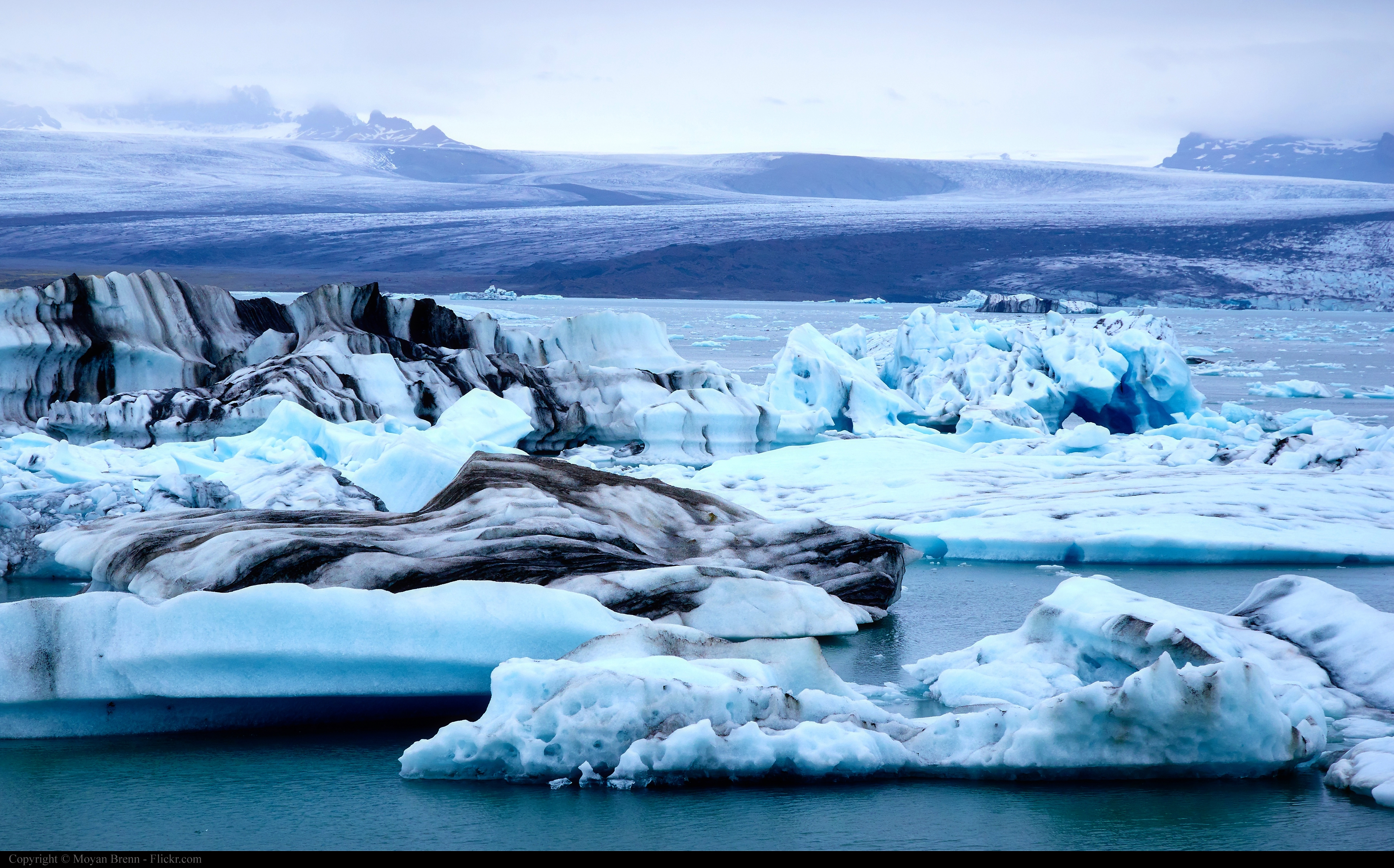 the icebergs lagoon Jokulsarlon during a cloudy day of September